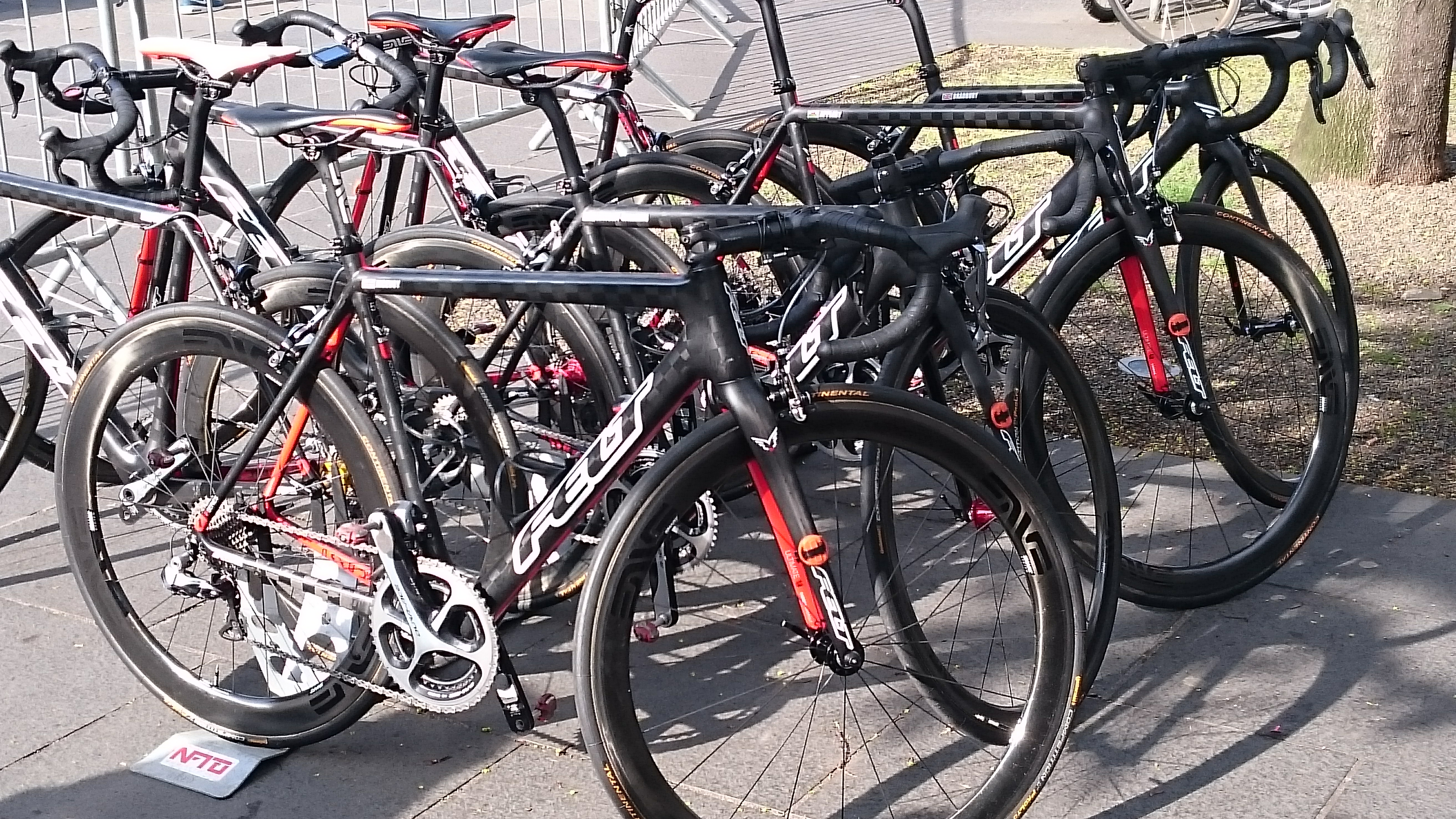 The Felt bikes of the NFTO team at Round 3 of the Pearl Izumi Tour Series in Edinburgh, on 19 May 2016